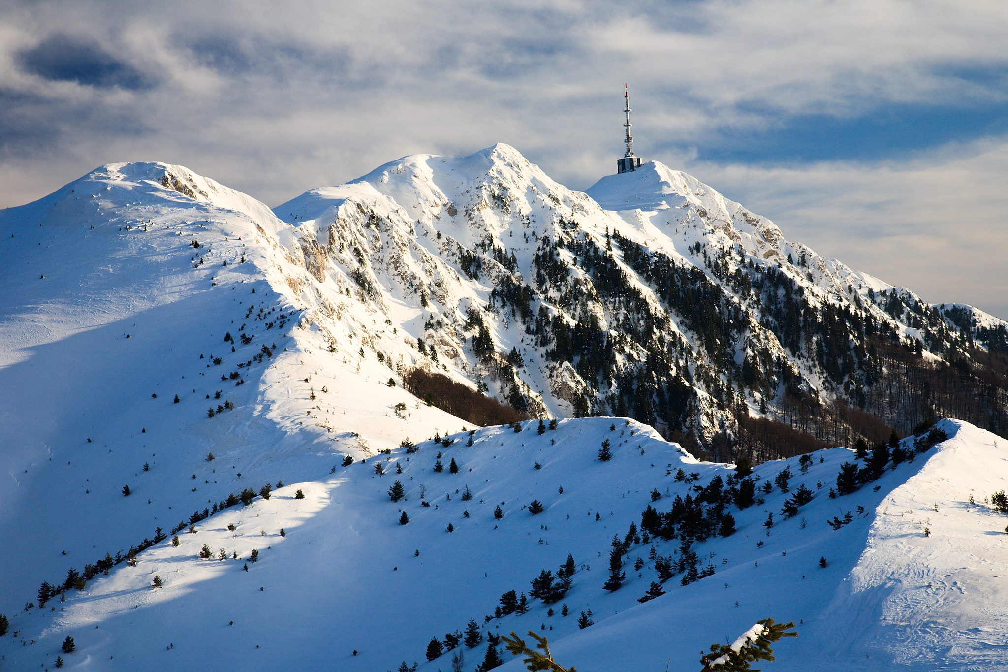 The Oreliak summit in Pirin mountain, Bulgaria